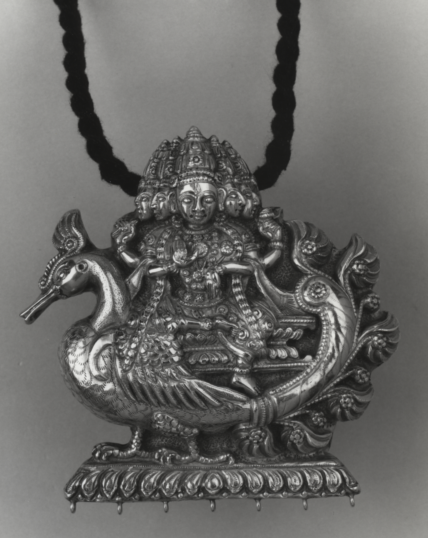 In Hindu devotion, worshippers sometimes dress images of the gods, adorning them with jewelry, such as this gold pendant depicting the warrior god Karttikeya, a son of Shiva.